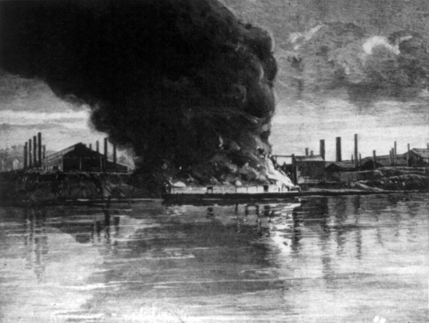 "The Burning Barges" during the Homestead Strike. Illus. in: Harper's Weekly, 1892 July 16.